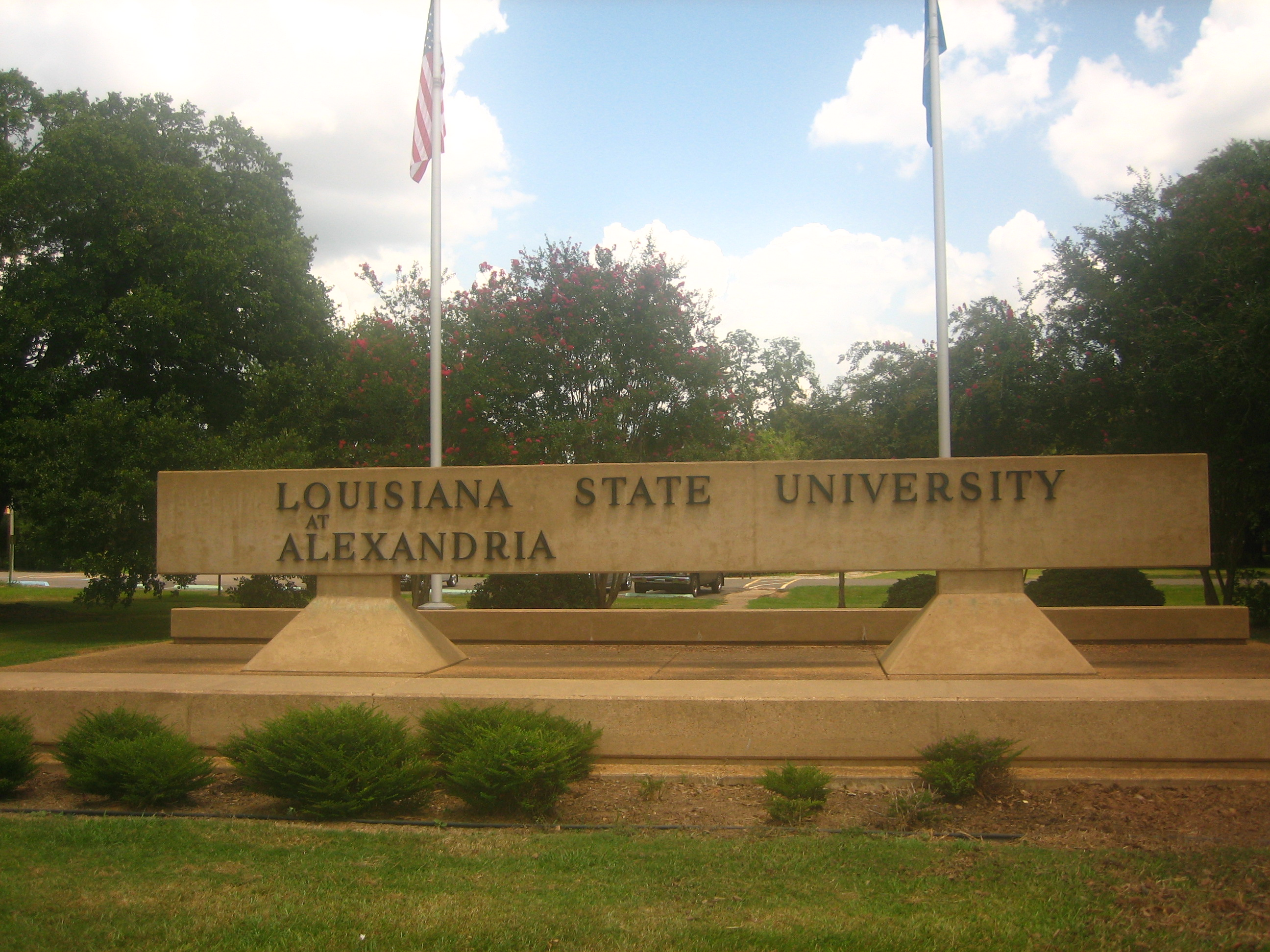 Alexandria, Louisiana. I took photo on Aug. 1, 2008.Billy Hathorn (talk) 02:59, 20 August 2008 (UTC)